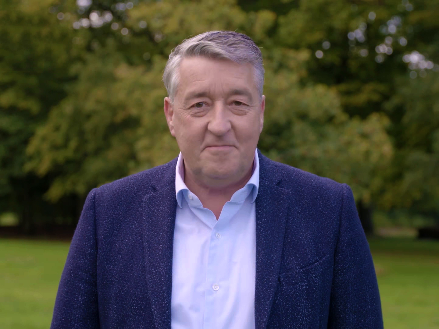 Dutch baker Robèrt van Beckhoven